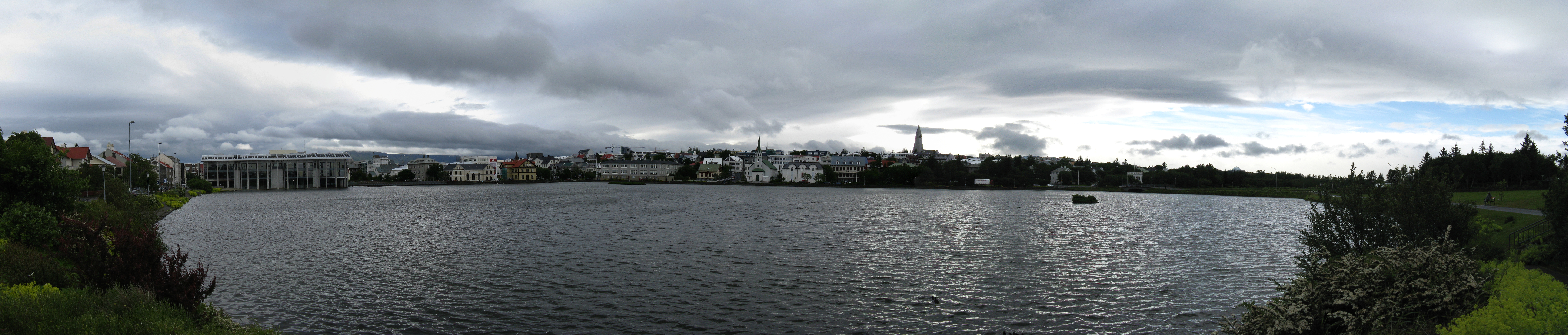 Panoramic photograph of the Tjörnin pond in Reykjavik, Iceland. Taken in July 2014